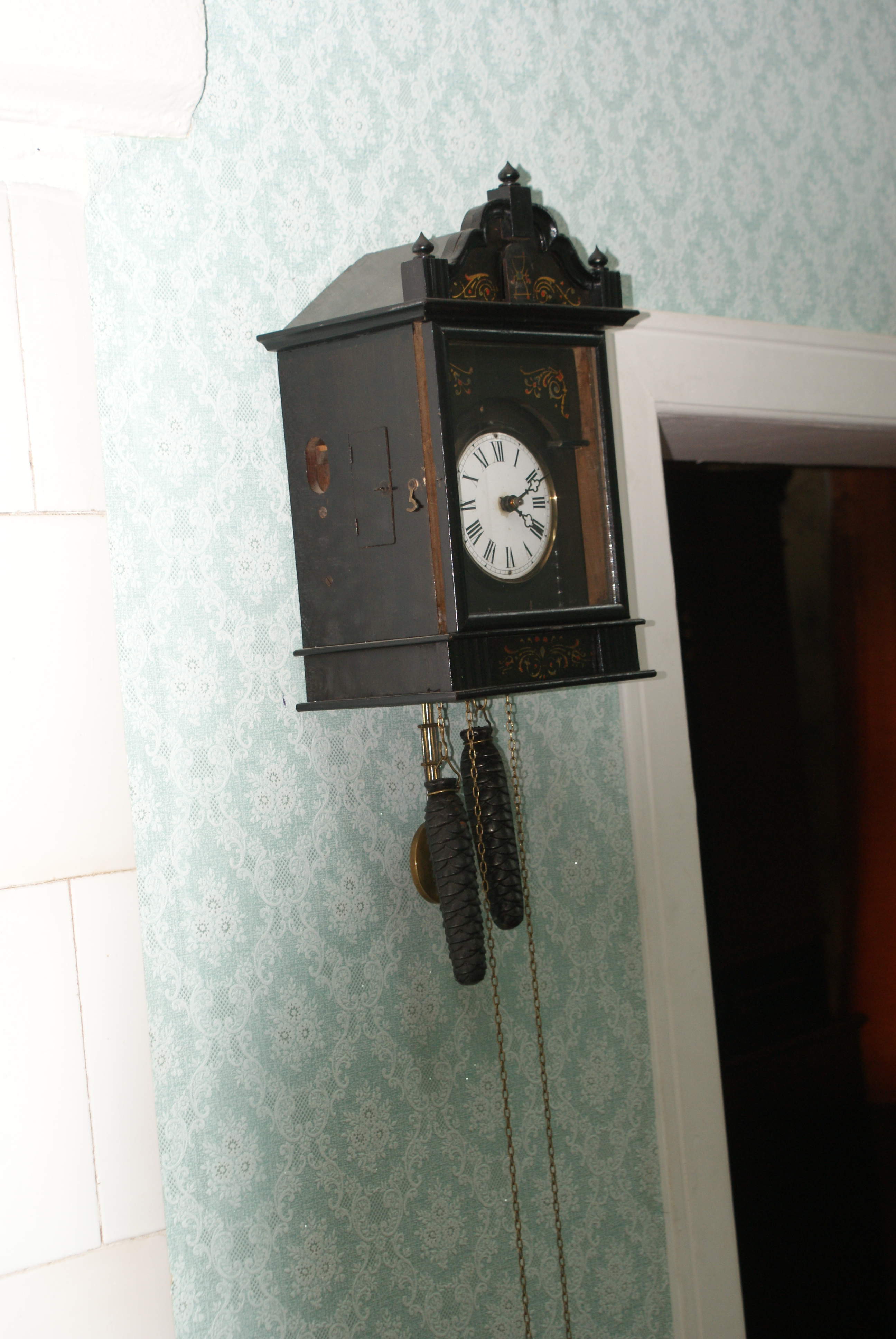 House-Museum of the First Congress of the Russian Social-Democratic Wokers' Party